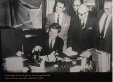 Historical photo of President John F. Kennedy signing the Act establishing the Lincoln Boyhood Park as part of the National Park System.